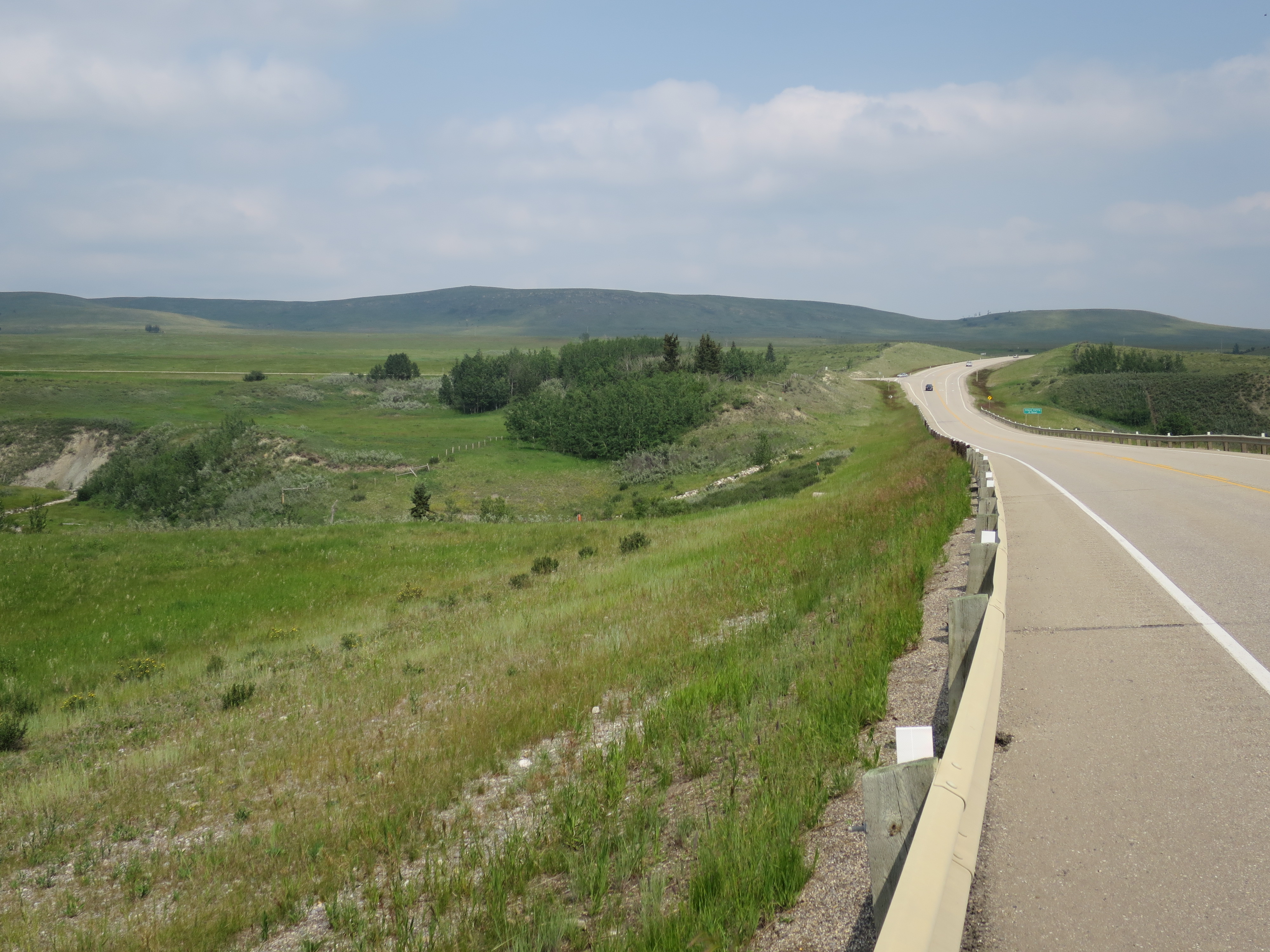 The Bow Valley Trail (Alberta Highway 1A, Canada) crossing the Grand Valley Creek, ca. 8km West of Cochrane, looking East.